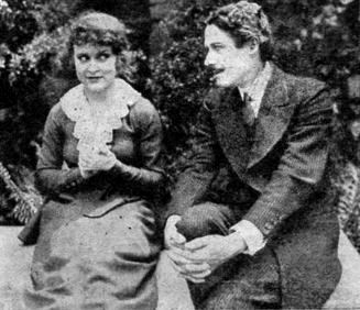 Still from the American film The False Faces (1919) with Mary Anderson and Henry B. Walthall, on page 5 of the April 1919 The Tatler.